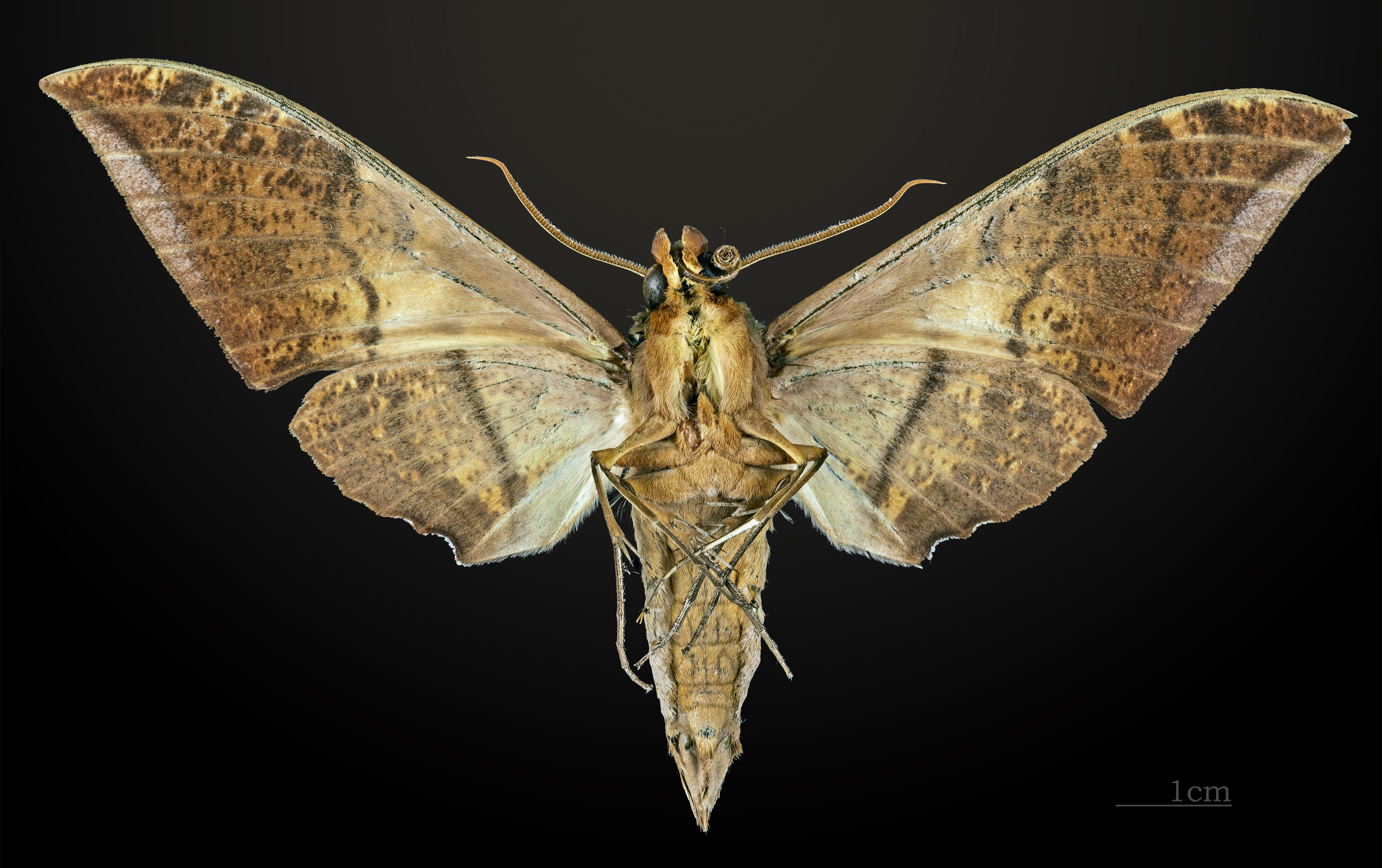 Ambulyx tenimberi - △ Ventral side Collection of the Mathematician Laurent Schwartz